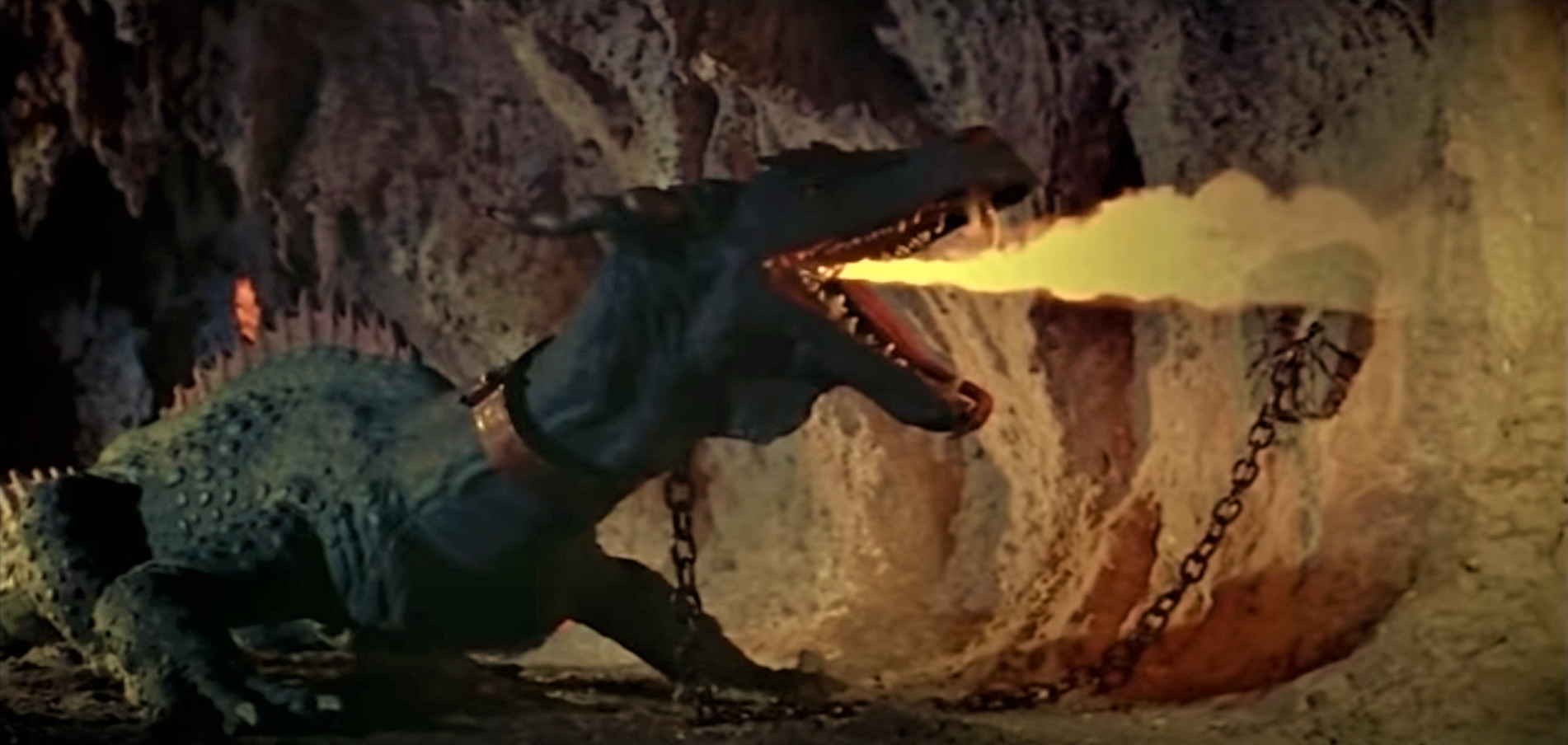 Taro the dragon, The 7th Voyage of Sinbad.